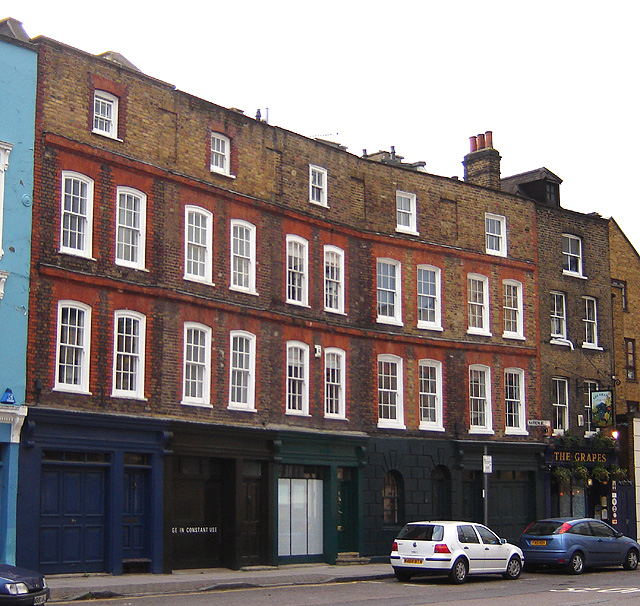 Early Georgian terrace and Grapes pub, Limehouse, Tower Hamlets, London. 6 January 2006. Photographer: Fin Fahey